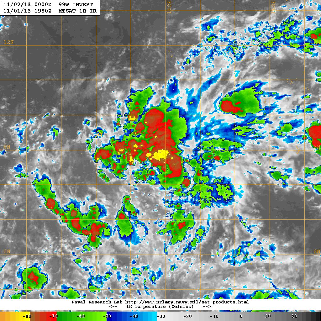 The enhanced infrared imagery presents a new-formed tropical disturbance near Kosrae on November 1, 2013, which was designated as “Invest 99W” by the U.S. Navy. The system continued intensifying and ultimately became Typhoon Haiyan, a storm severely devastating the Visayas of the Philippines.